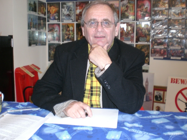 Sylvester McCoy